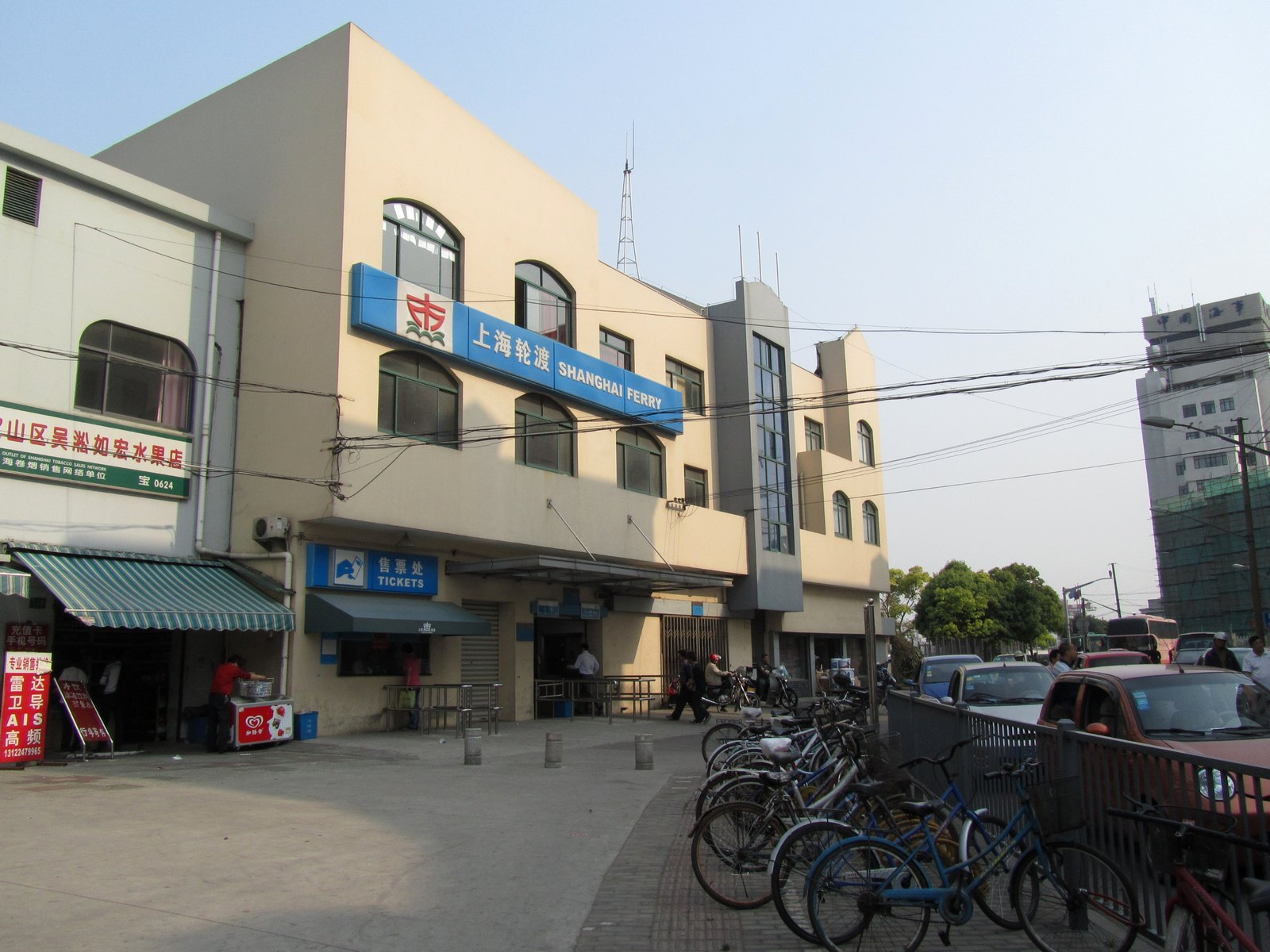 Wusong Ferry